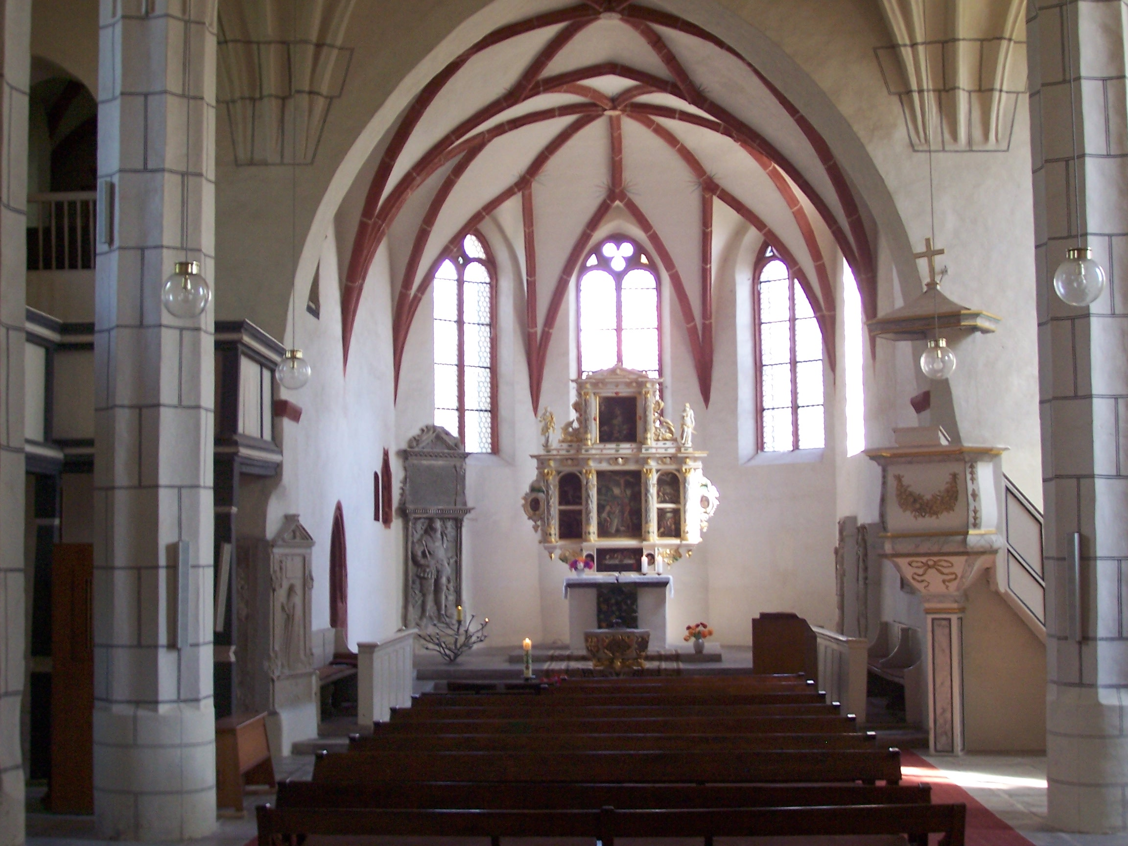 Interior of Saint Mary's Church in Eilenburg